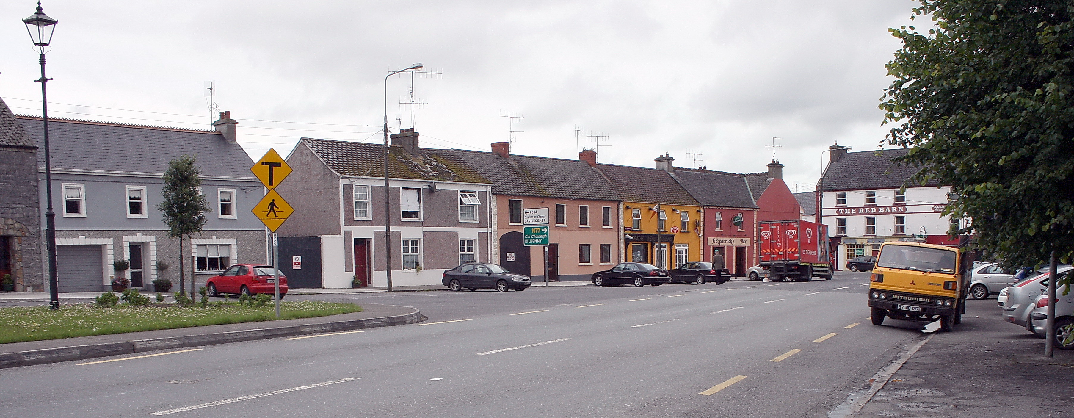 Ballyragget